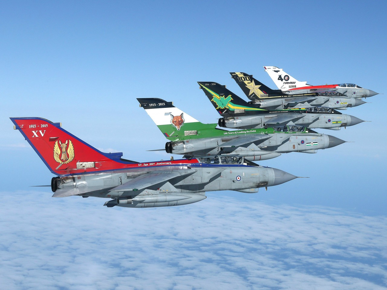 RAF Tornado squadron anniversary liveries.